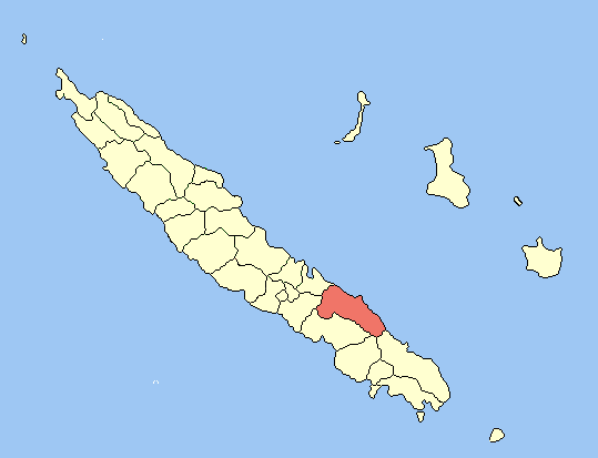 Created map myself.